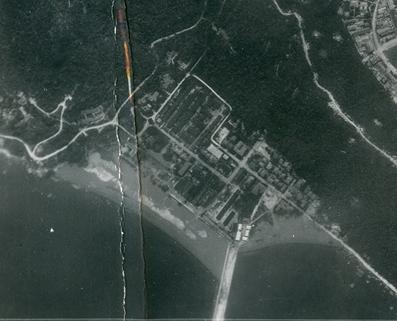 Seishiwan (西子灣), 1945. The image was cropped from a US Air Force photo.